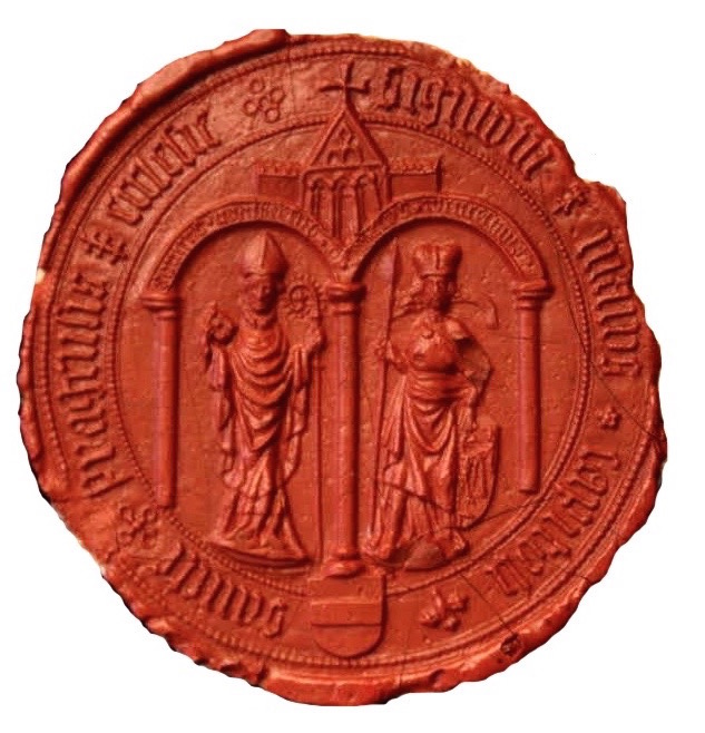 The Great Seal of the Chapter, the Empire of Charles IV, 1360